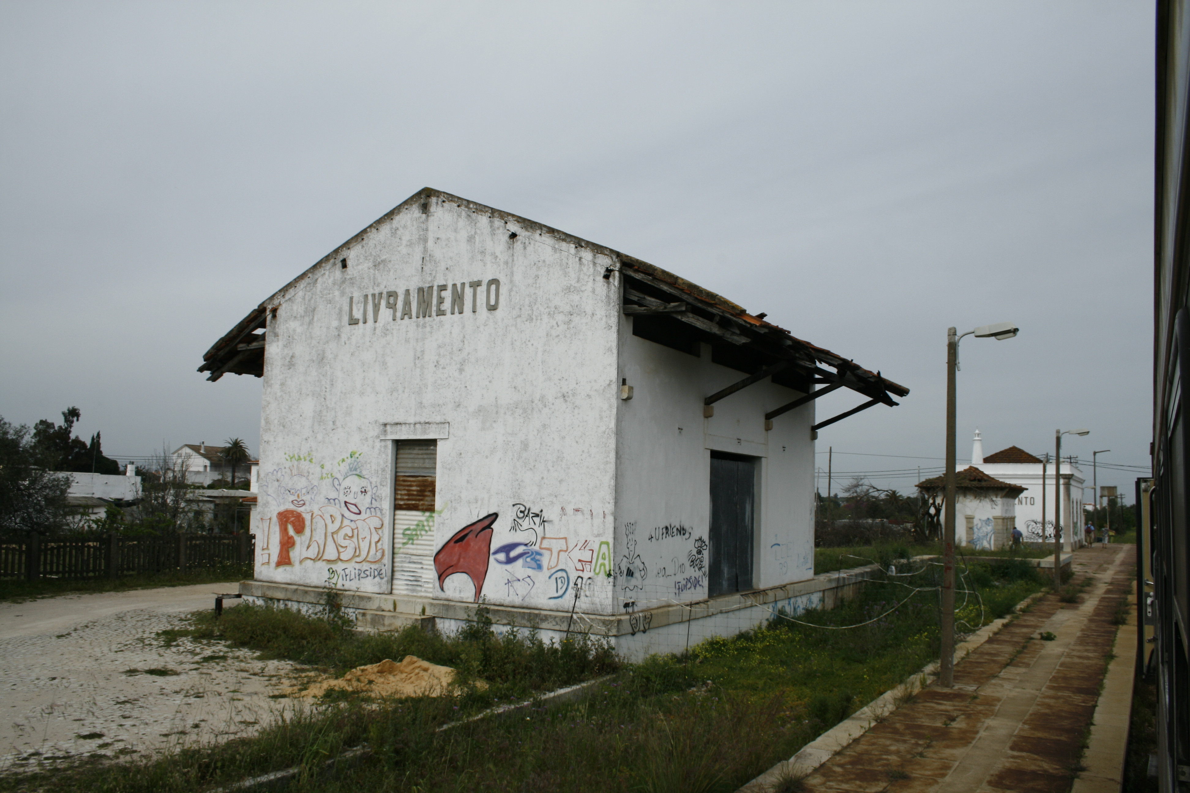 Old cargo station of the Livramento Halt, in Algarve, Portugal.